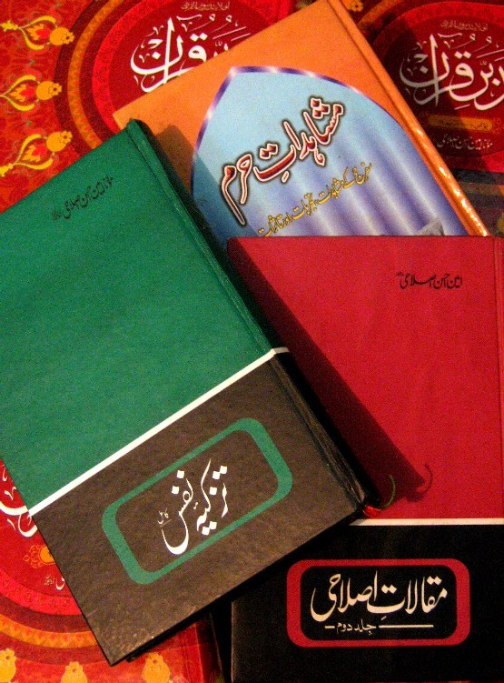 Some of the works of Amin Ahsan Islah